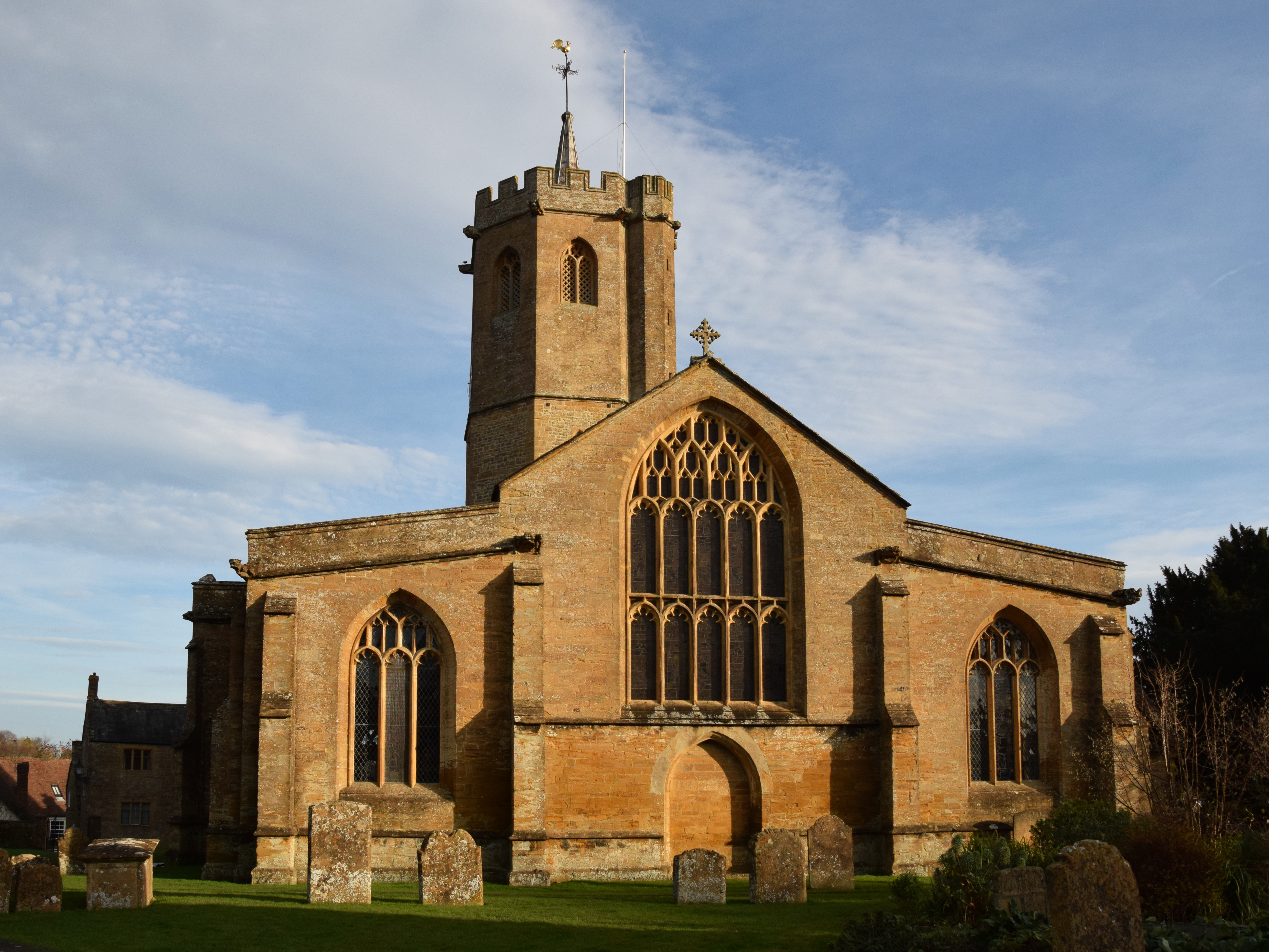 Church of St Peter and St Paul, South Petherton Wikidata has entry Q5117713 with data related to this item.